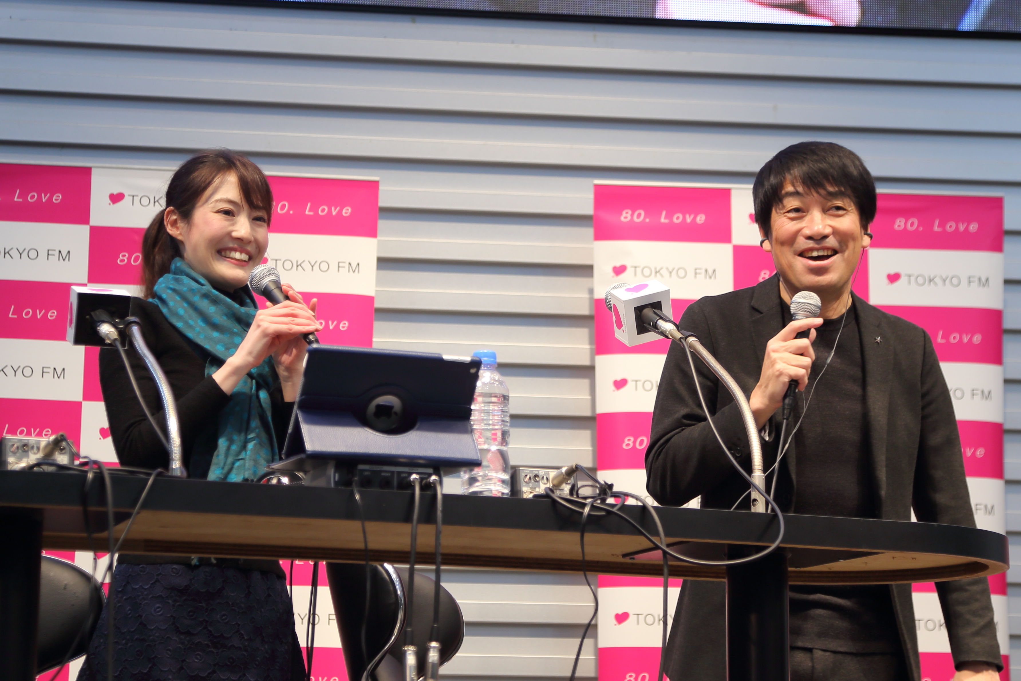 Public live broadcasting in Daiba. Ellina Wataya (Q50743699)(left) and Tetsuo Nakanishi (Q282871)(right)